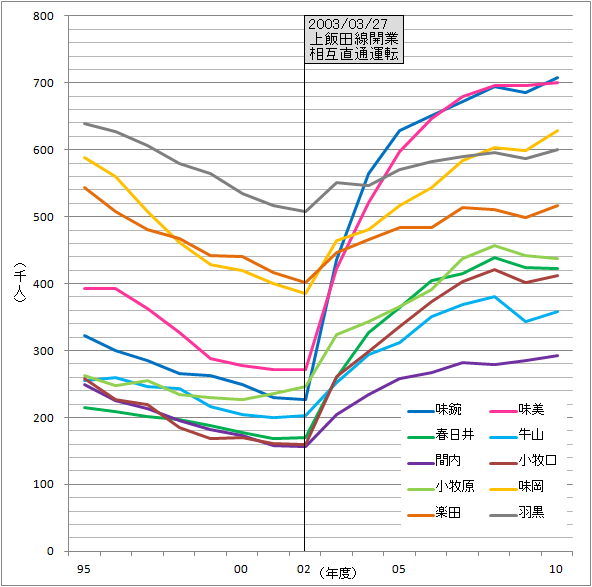 Vehicle ridership Stations of Komaki Line.